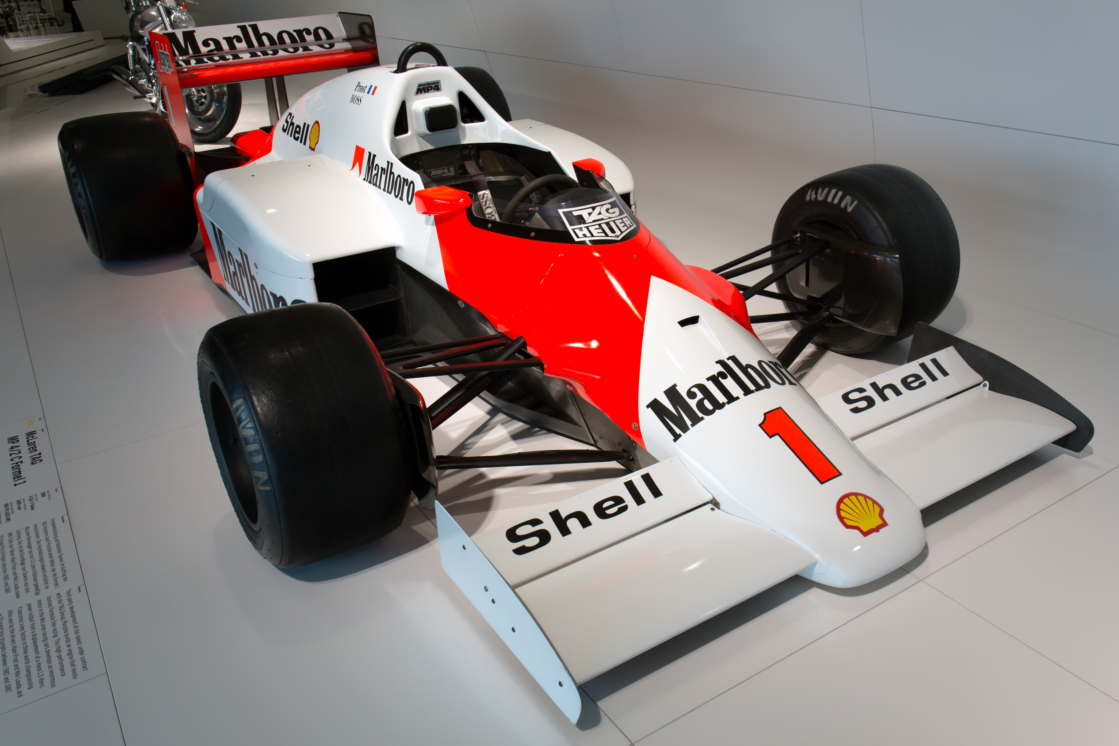 1986 McLaren MP4/2C (Alain Prost)